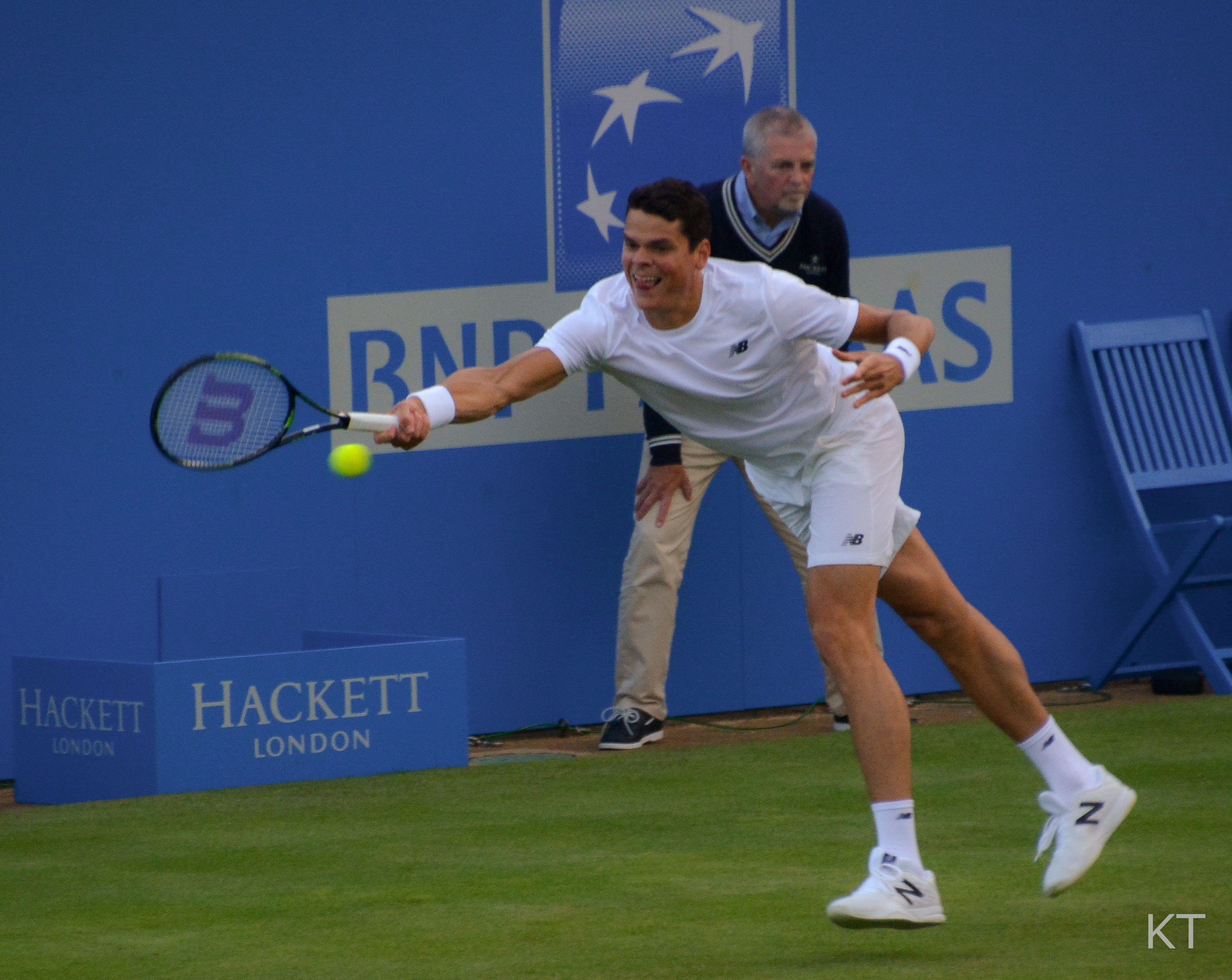 Aegon Championships 2016.